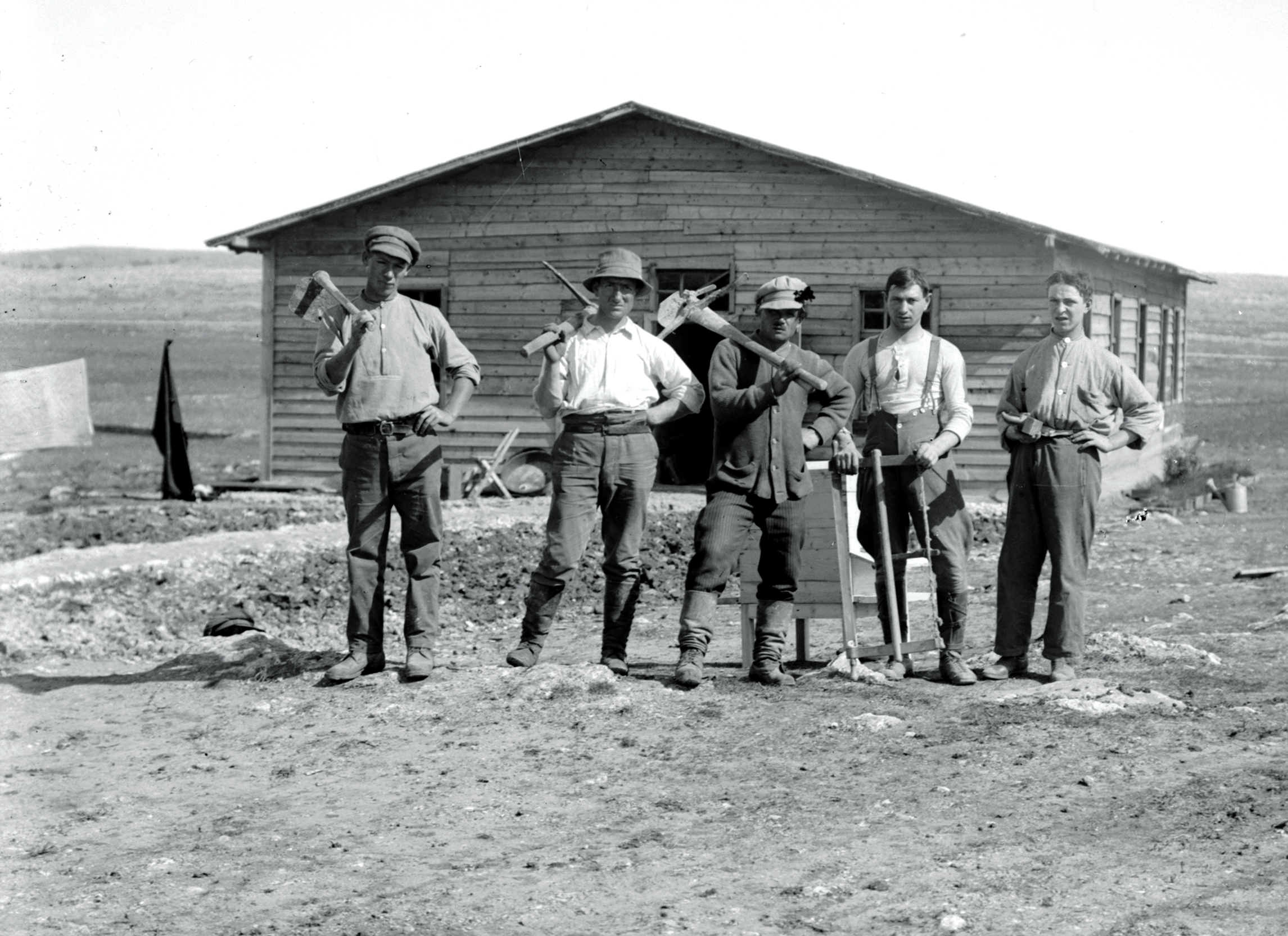 Jewish colonies and settlements. Commencing a Jewish settlement; a camp. Types of settlers.